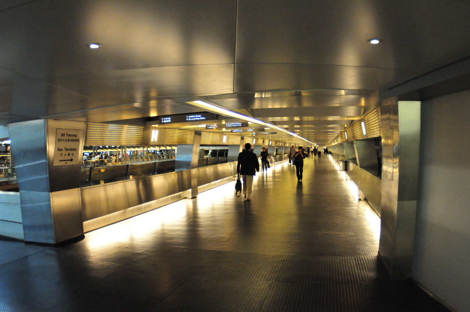 Central Elevated Walkway 中區行人天橋系統